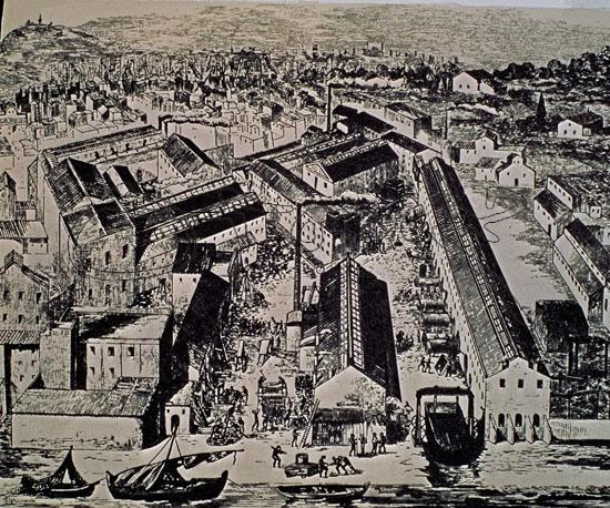 Factory of "La Maquinista Terrestre i Marítima" at the Barceloneta neighborhood in Barcelona. Image from the XIX century. The company was established in 1855.